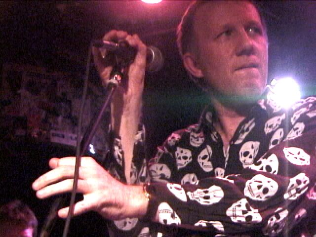 Mark Perry of Alternative TV performing at CBGB, NYC on 22 October 2003 Video still from PUNKCAST#349.